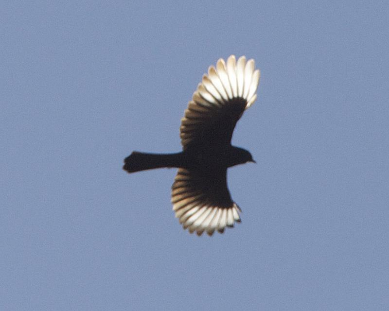 Phainopepla male - in flight Phainopepla nitens Corn Creek, Nevada, USA November 9th. 2010 Distribution: 690V4788